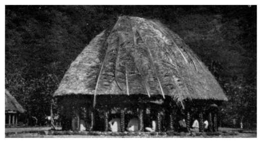 Traditional Samoan round house (fale tele) with Chiefs sitting In Council